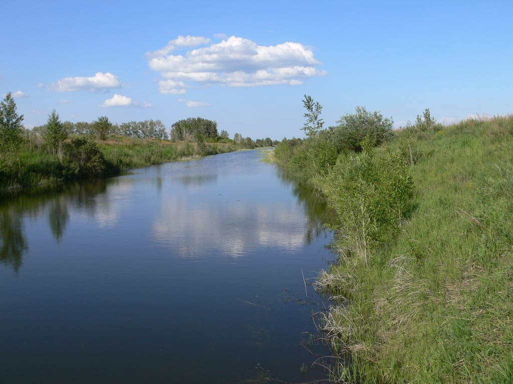 Kulunda irrigative canal, near Glyaden village — Altai Krai. In the Western Siberia region of Central Asian Russia.